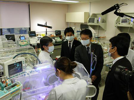 Akira Nagatsuma, Minister of Health, Labour and Welfare, and Shin'ya Adachi, Parliamentary Secretary of Health, Labour and Welfare, inspected Tokyo Women's Medical University Hospital in Shinjuku Ward, Tōkyō Metropolis on December 3, 2009.(For terms of use, see 利用規約｜厚生労働省.)